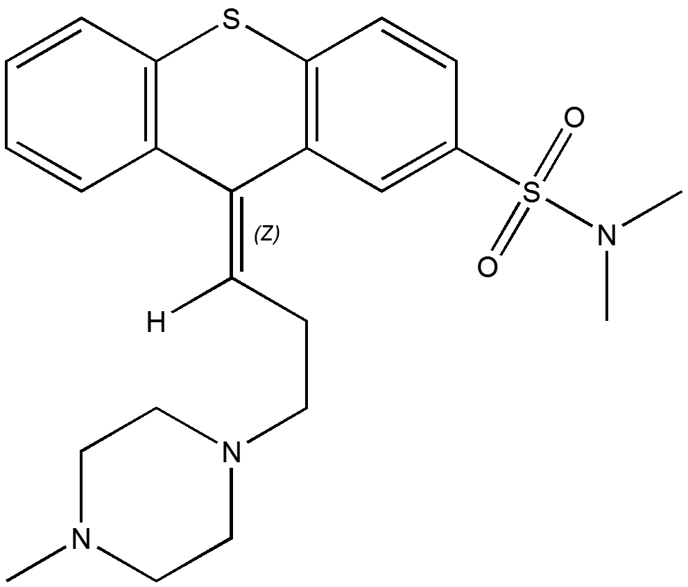 Created in ChemOffice 9.0, optimized with optipng by Porkchopmcmoose 03:37, 19 February 2007 (UTC)